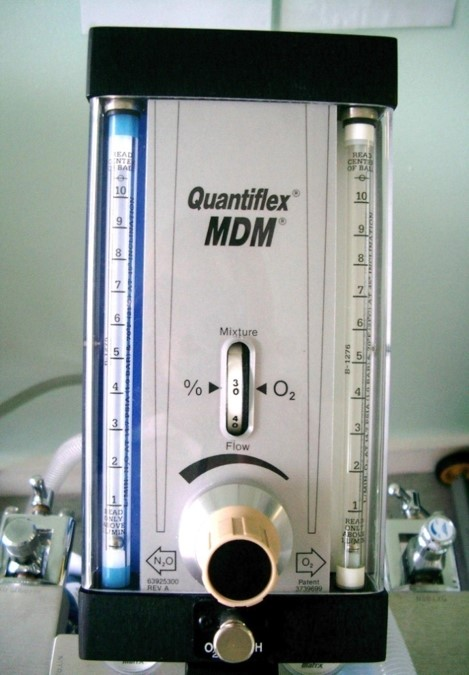 Quantiflex machine with nitrous oxide flow meter, oxygen flow meter, mixture control dial, flow control knob and oxygen flush button